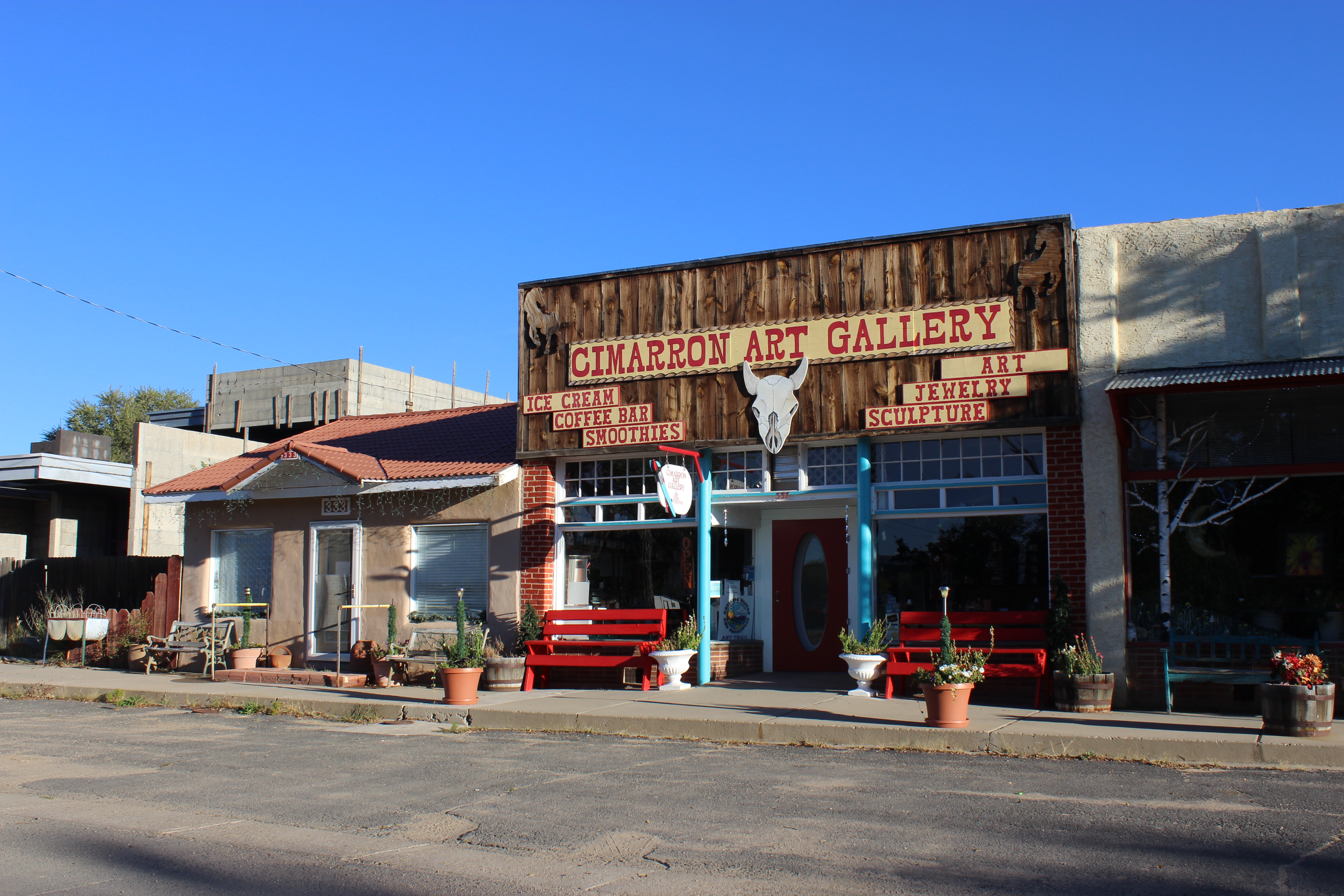 Cimarron Art Gallery in Downtown Cimarron, New Mexico.